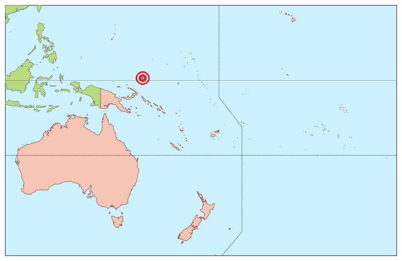 Location of the island Kapingamarangi in Pohnpei, Micronesia, Oceania.